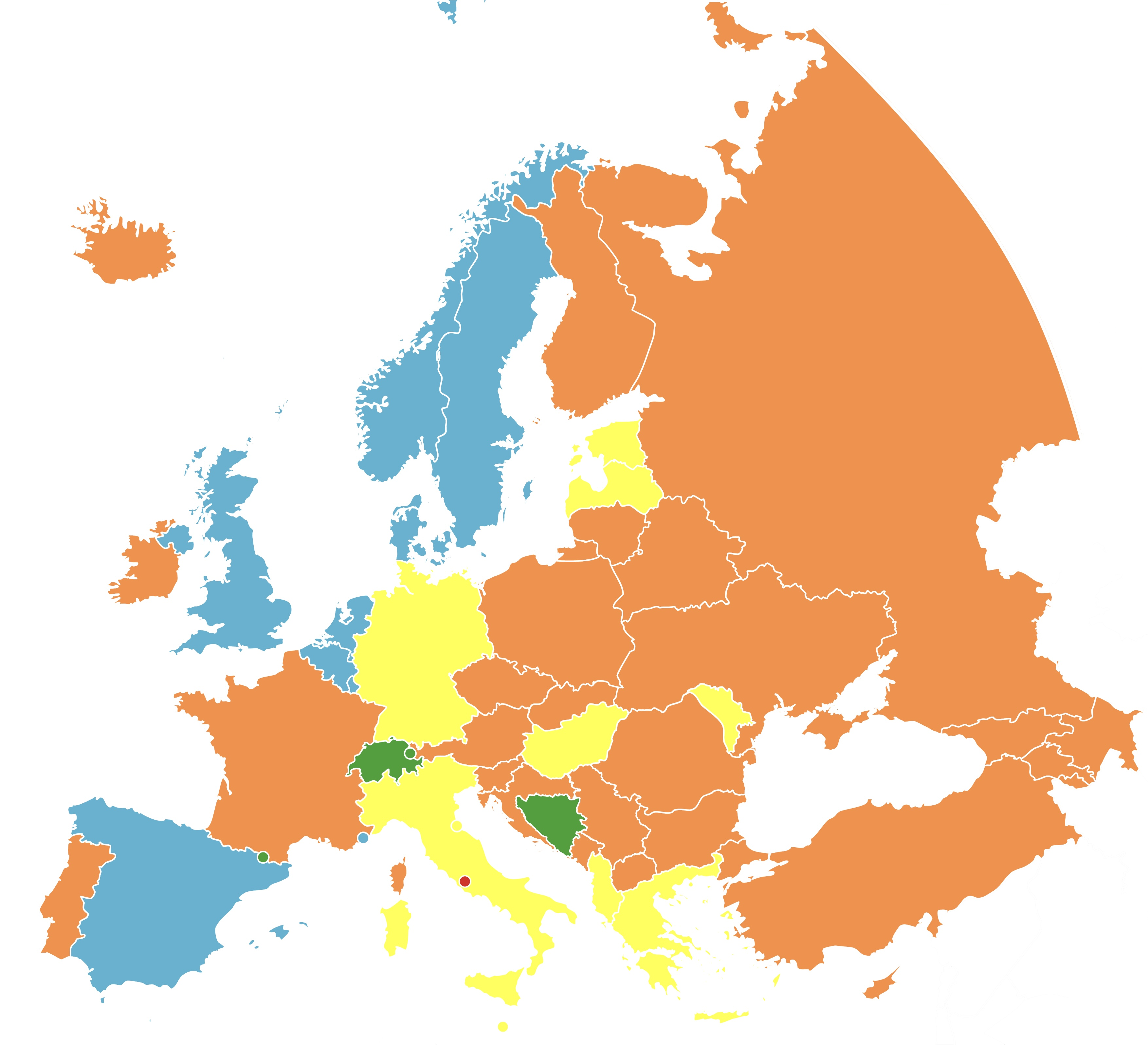 The method of electing the President of the individual countries of Europe Monarchy President elected in direct elections President elected by parliament Collective head of state Absolute monarchy